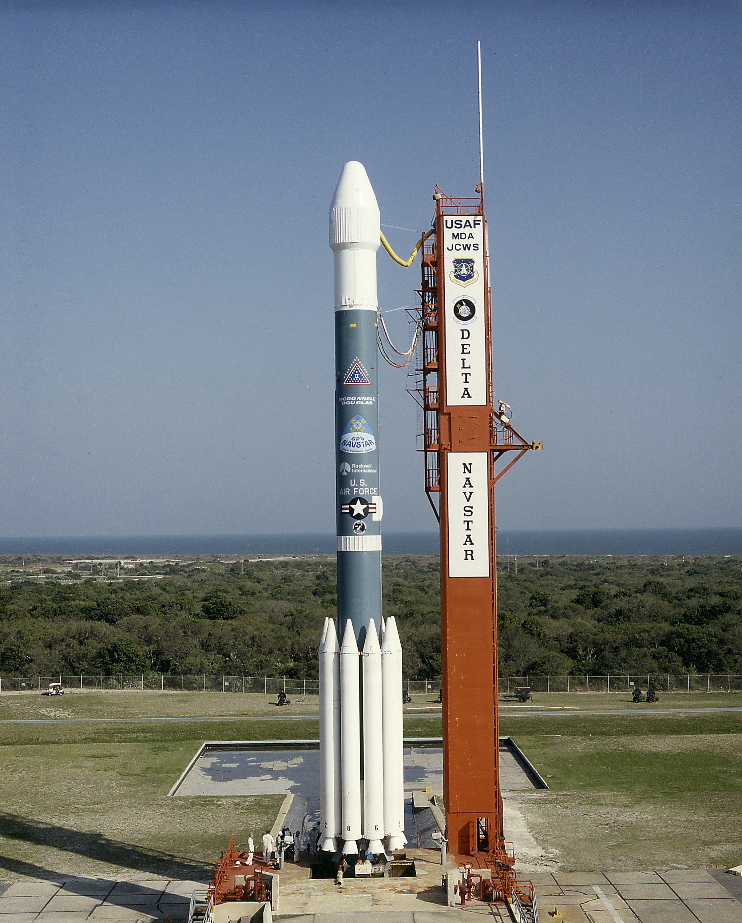 The Air Force Delta II vehicle sits poised on Complex 17A at the Cape Canaveral Air Station, ready to carry the 19th NAVSTAR Global Positioning System Satellite into orbit. A secondary NASA experiment, the Small Expendable Deployer System (SEDS), will also be deployed.